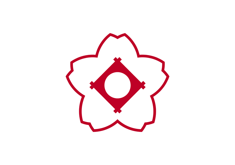 Flag of Kasugai, Aichi